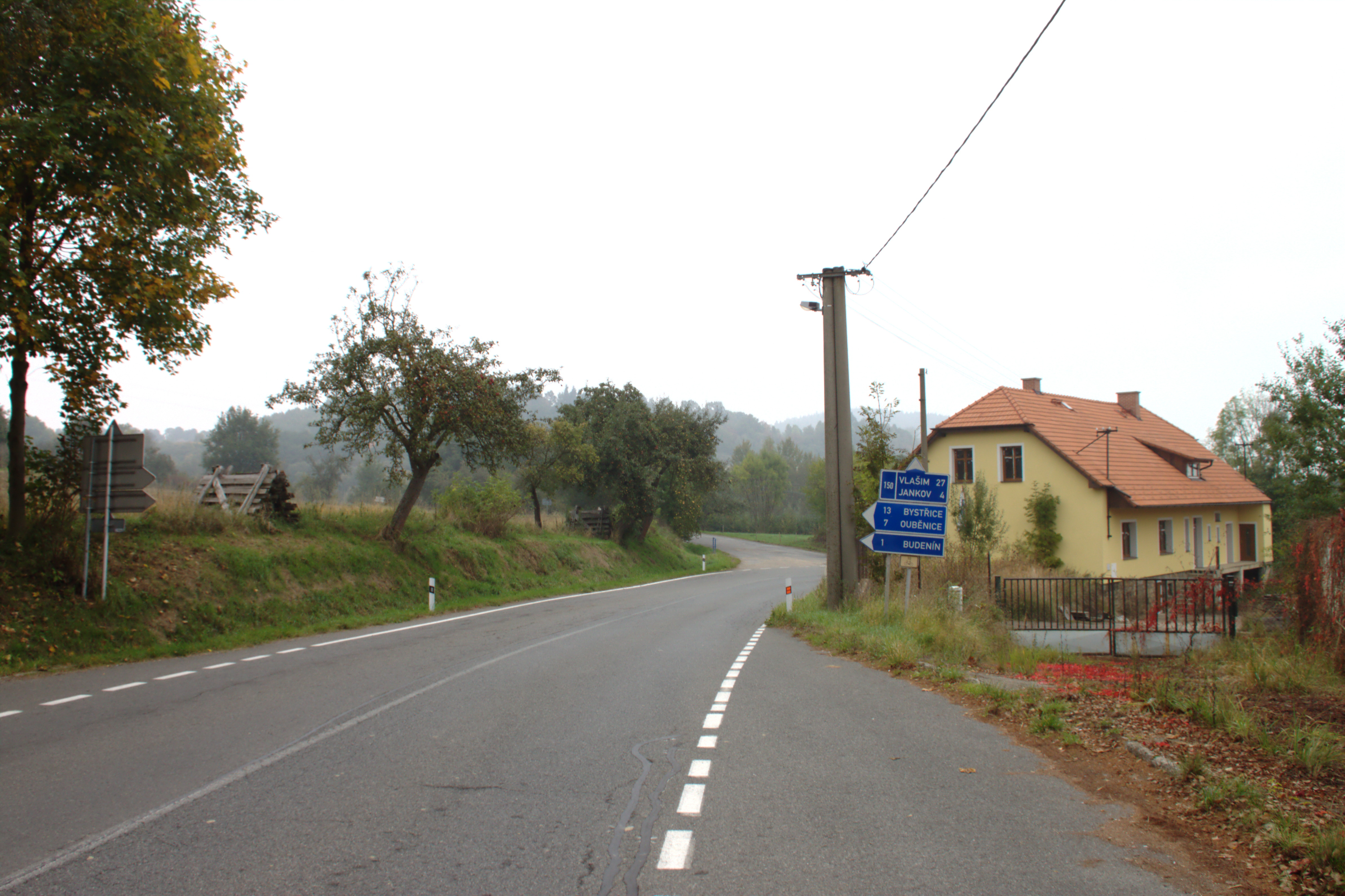 Main road in the village of Otradovice near Votice, Central Bohemia, CZ